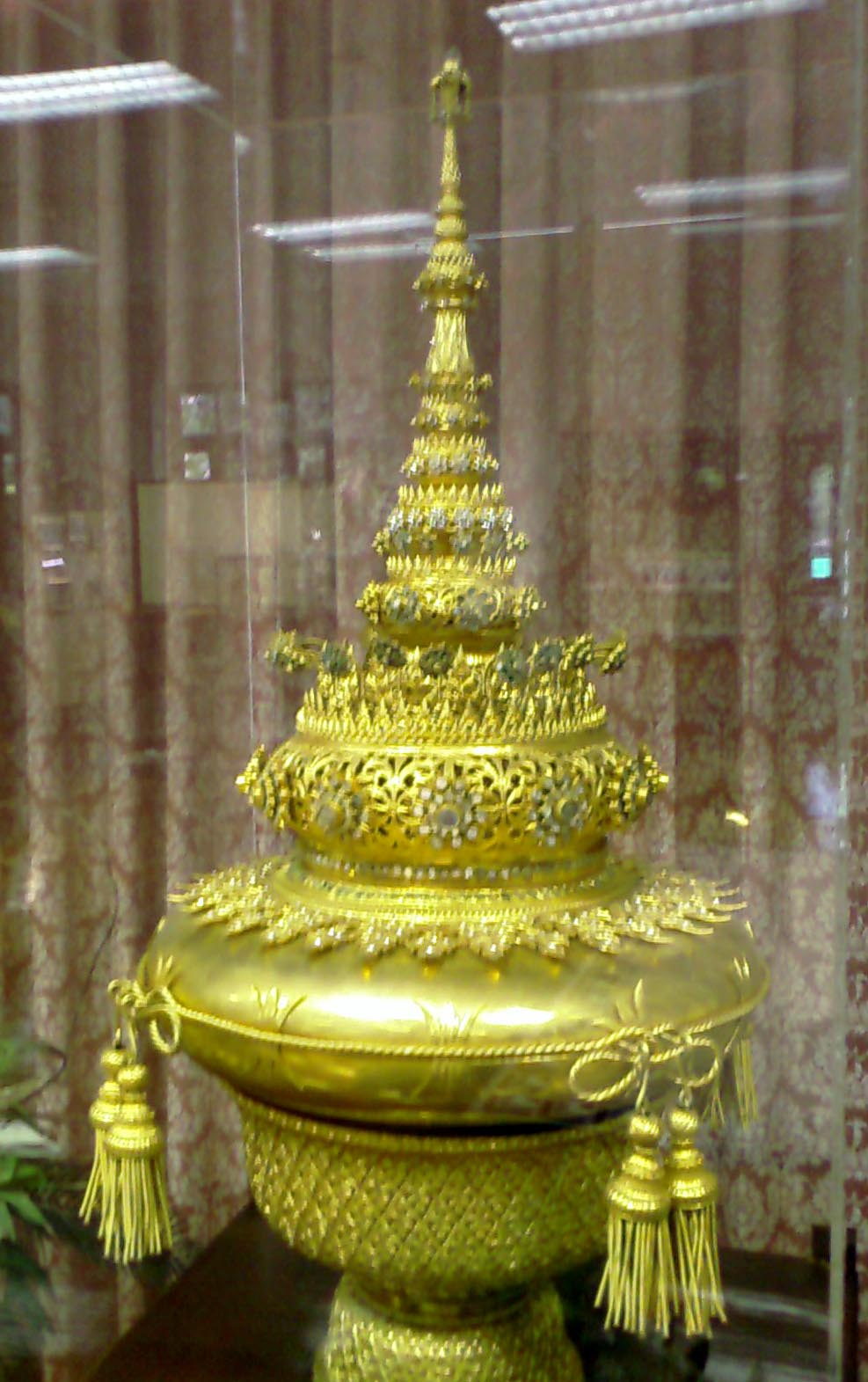 Phra Kiao, Thai equivalent of the coronet. It is the personal emblem of King Chulalongkorn and the symbol of Chulalongkorn University. The one pictured is a replica of the original one at the Grand Palace, made in 1986 with permission of King Bhumibol Adulyadej and given to the University on 13 July, 1989. Permanently on display at Chulalongkorn University Memorial Hall.